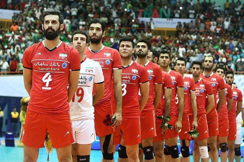 Iran men's national volleyball team before third match against the united states national team during 2015 FIVB Volleyball World League. Iran defeated the United States in straight sets.